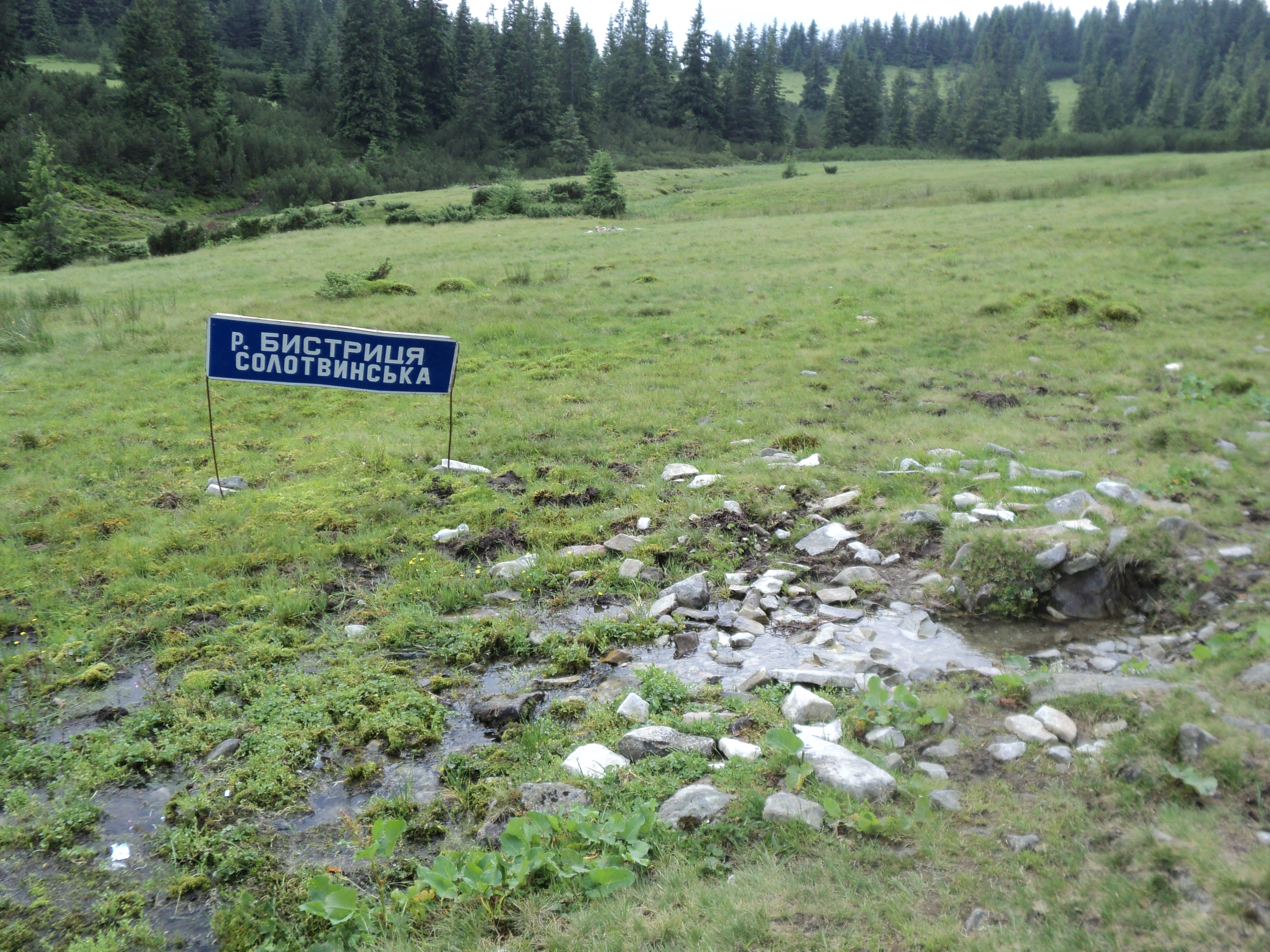 Source of Bystrica-Solotvynska